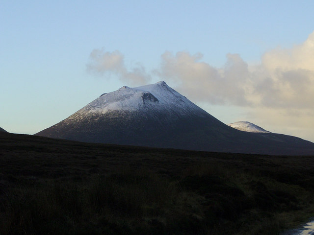 Morven and Small Mount, taken from the Braemore to Corrichoich track level with Maiden Pap, Caithness, Scotland